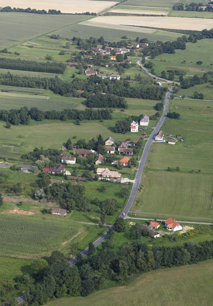 Velemér, VAs county, Hungary, aerial photography